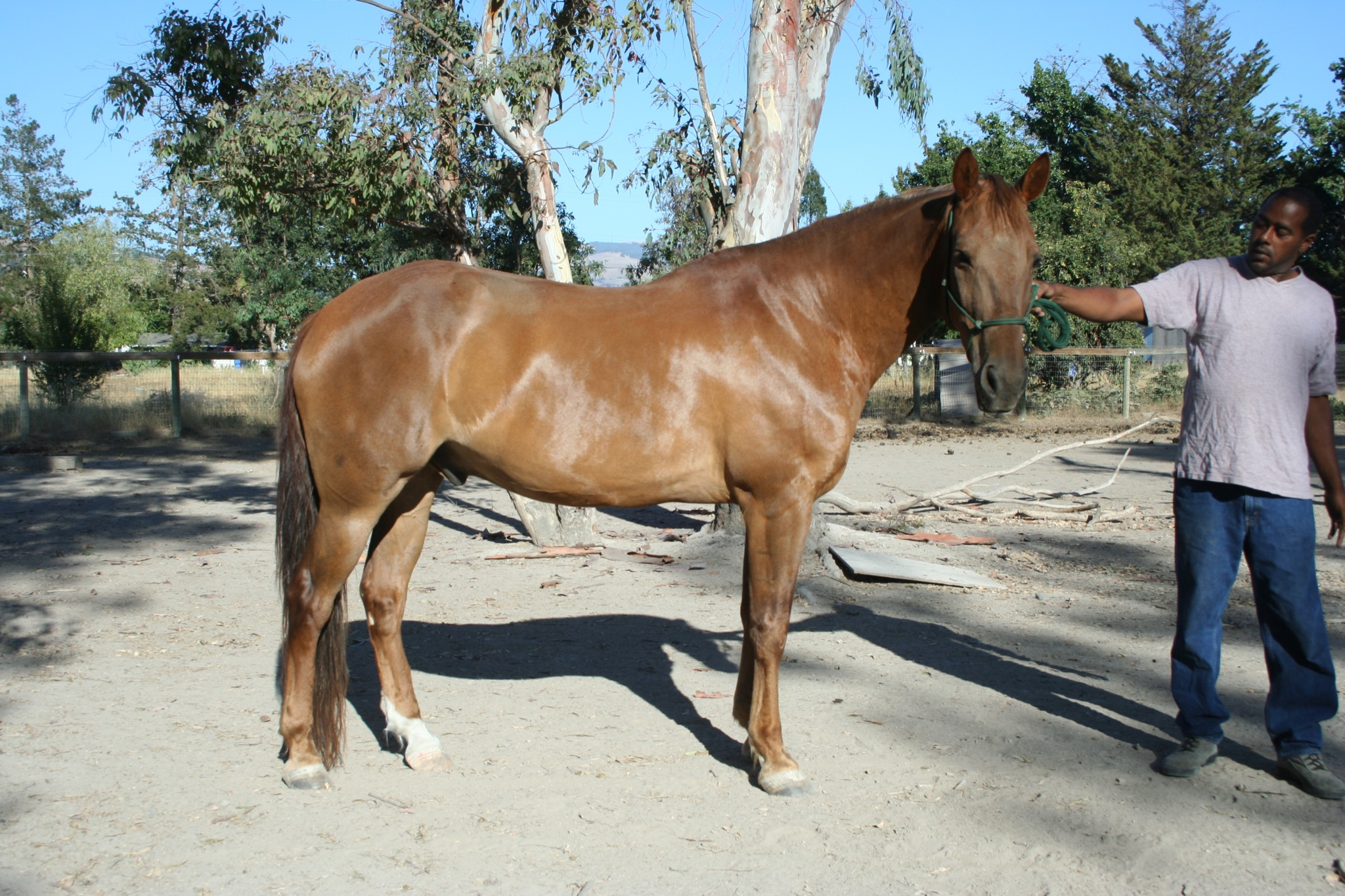 American Appendix Horse